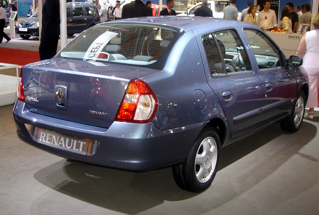 Renault Symbol at SIAB 2007